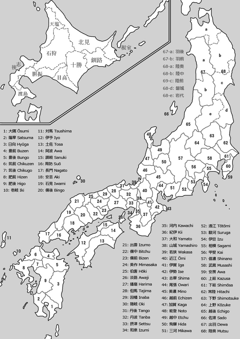 Ancient Japan Provinces Map in Japanese Kanji